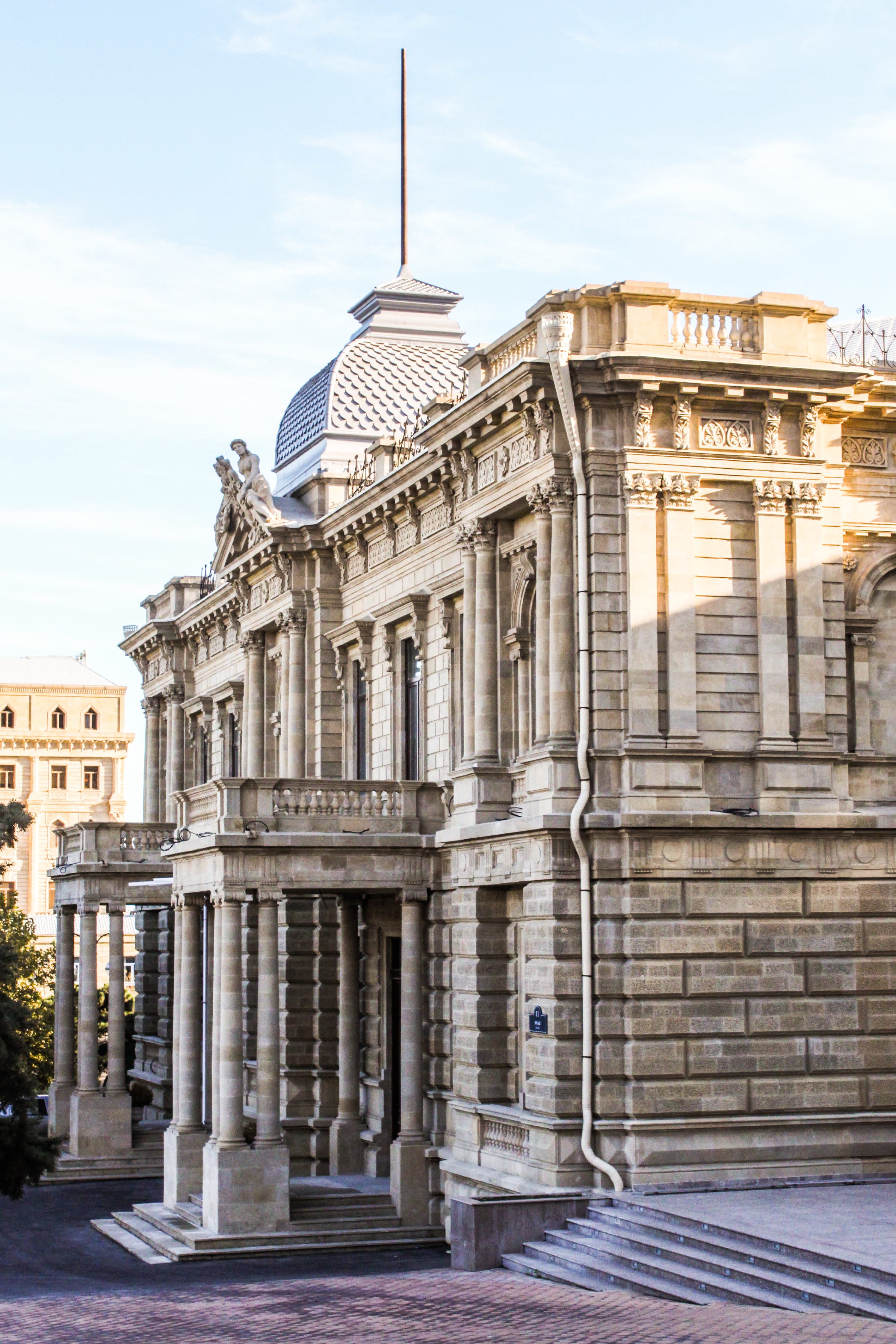 Palace of De Bur detail